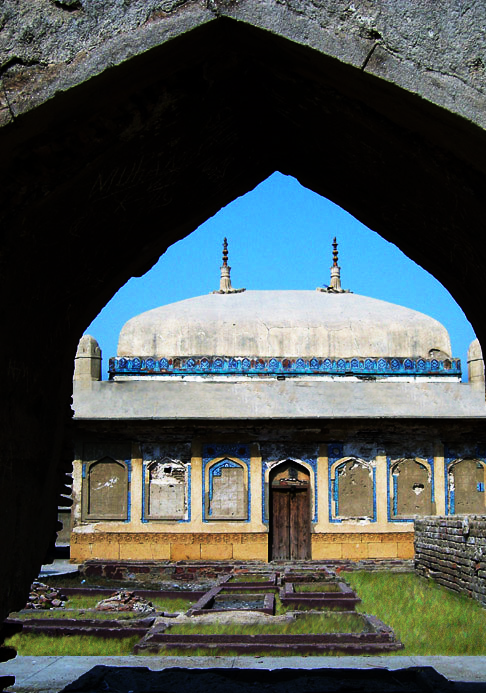 Slightly photoshoped version of the Mir tombs in the city of Hyderabad, Sindh. Just added the lightings and fixed some areas keeping as true to the original photograph as I could get.